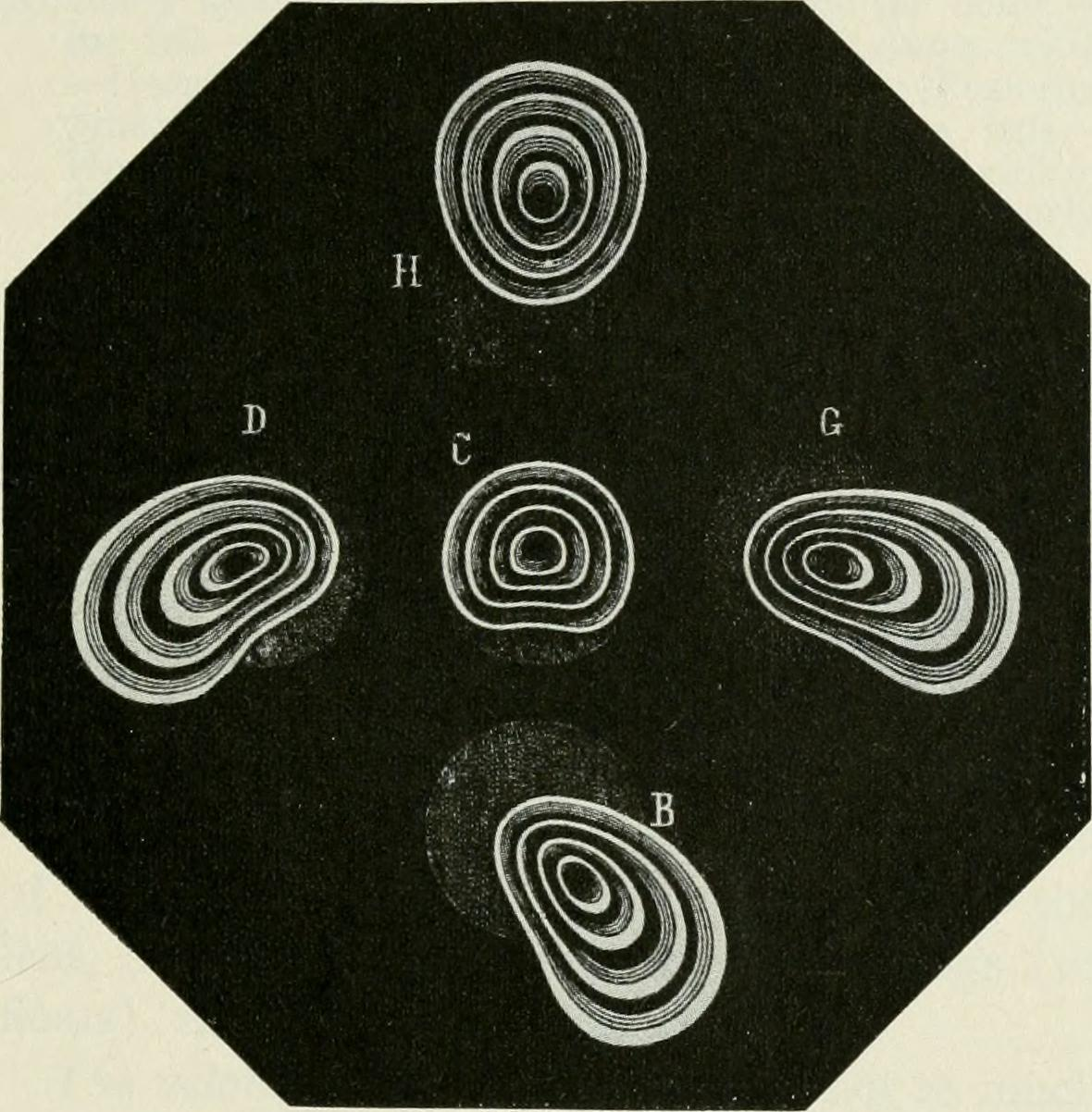 Title: The commoner diseases of the eye : how to detect and how to treat them Year: 1904 (1900s) Authors: Wood, Casey Albert, 1856- Woodruff, Thomas Adams Subjects: Eye -- Diseases and defects Publisher: Chicago : G.P. Engelhard & Company Text Appearing Before Image: Conical Cornea. of a cone, the result of the intraocular pressureupon thin and weakened corneal tissue. At theapex of the cone is often observed a slightopacity. It is usually seen in young adults, gen-erally of the female sex. If the patient look-straight forward the deformity may be detectedby a side view of the cornea at its temporal COMMONER DISEASES OF THE CORNEA 22J aspect. Placidos disk, or the ophthalmometer,shows a marked distortion of the image indicat-ing a high degree of irregular astigmatism. Thisanomaly is accompanied by a marked defect invision which is but slightly improved by glasses. Text Appearing After Image: Reflected Images of Placidos Disk in Keratoconus. Treatment. Cylindrical glasses to some ex-tent increase the visual power, but reduction ofthe cone by the use of the galvanocautery is themost reliable agent. COMMONER DISEASES OF THE IRIS 231 CHAPTER VIII. THE COMMONER DISEASES OF THEIRIS AND CILIARY BODY. Anatomy and physiology.—What produces the color ofthe iris.—The pupil.—The uveal tract.—Acute iritis.—Usually due to rheumatism or syphilis.—Posteriorsynechia?, or adhesions of the iris to the lens.—How to distinguish iritis from conjunctivitis.—Treatment of iritis very satisfactory if given early.—Cyclitis or inflammation of the ciliary body. Anatomy and Physiology.—The iris is a cir-cular, colored curtain suspended in front ofthe crystalline lens and pierced by an openingcalled the pupil. At its periphery it is attachedto the ciliary body. It separates the anteriorfrom the posterior chamber and regulates, bymeans of the expansion and contraction of thepupil, th